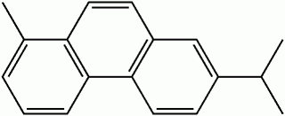 Description: Chemical structure of Retene Author, date of creation: selfmade by Shaddack, 0 November 2005 Source: self-made Copyright: Public Domain (PD) Comments: b/w hires PNG; ChemDraw